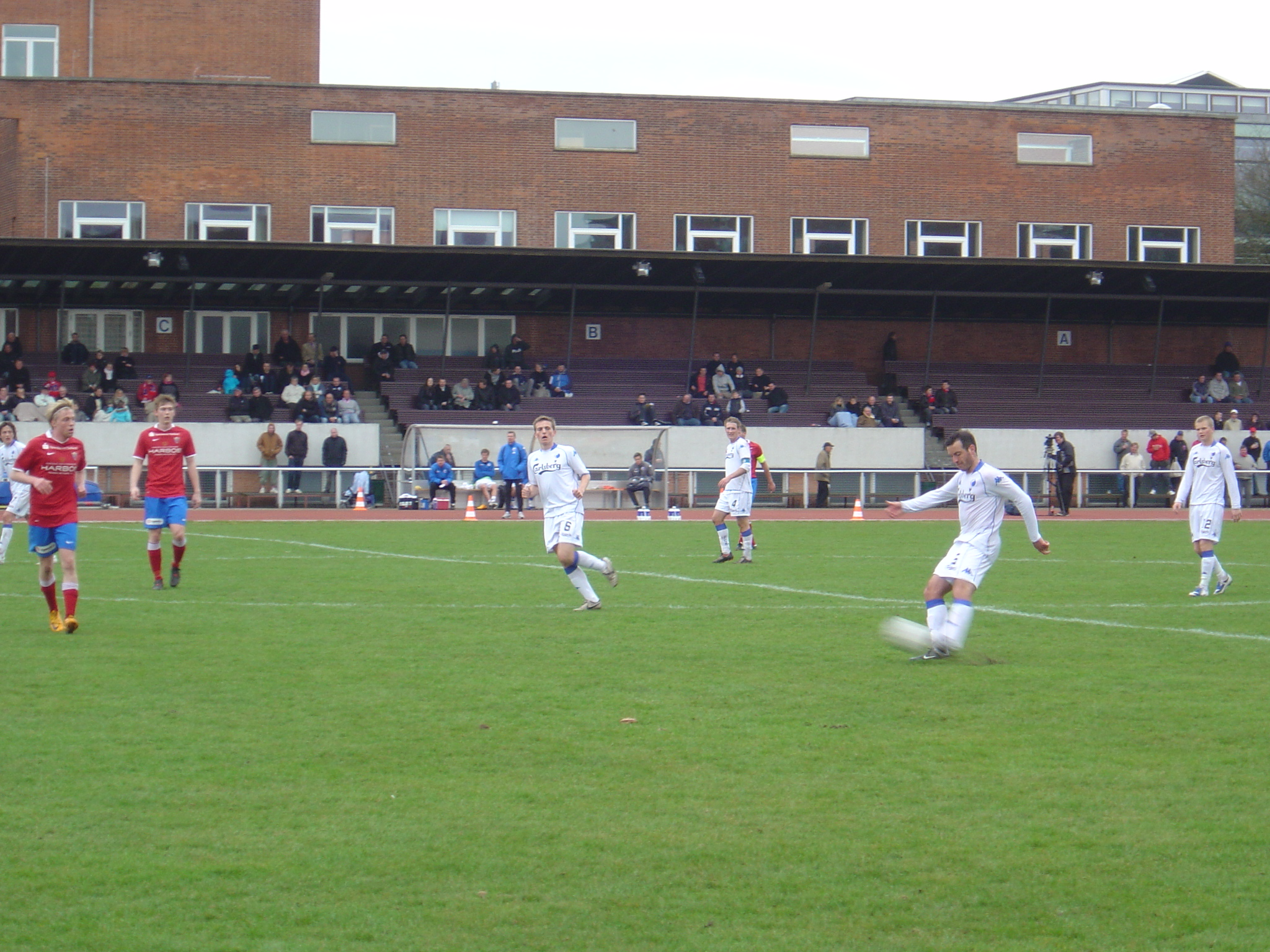 F.C. Copenhagen (II) against FC Vestsjælland — match action during a Danish 2nd Division East (level 3) match between the two Danish Association football clubs of F.C. Copenhagen (reserve team) and FC Vestsjælland on 5 April 2009 at Frederiksberg Idrætspark. The football player, that is shooting, is Niclas Jensen.